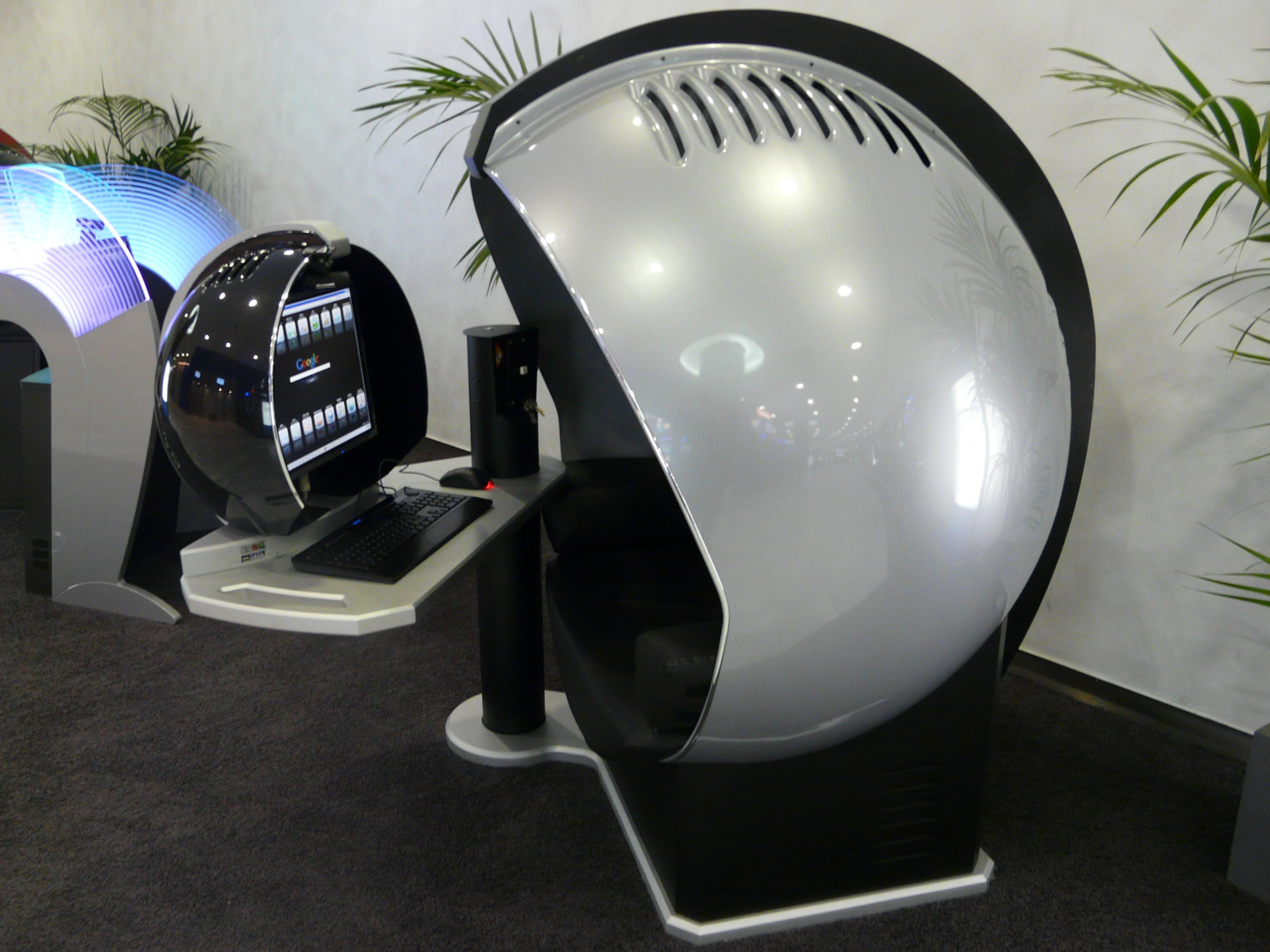 Internet kiosk "EasyNet Space"